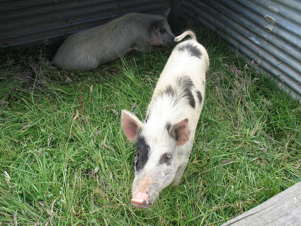 Pigs In A Pig Pen